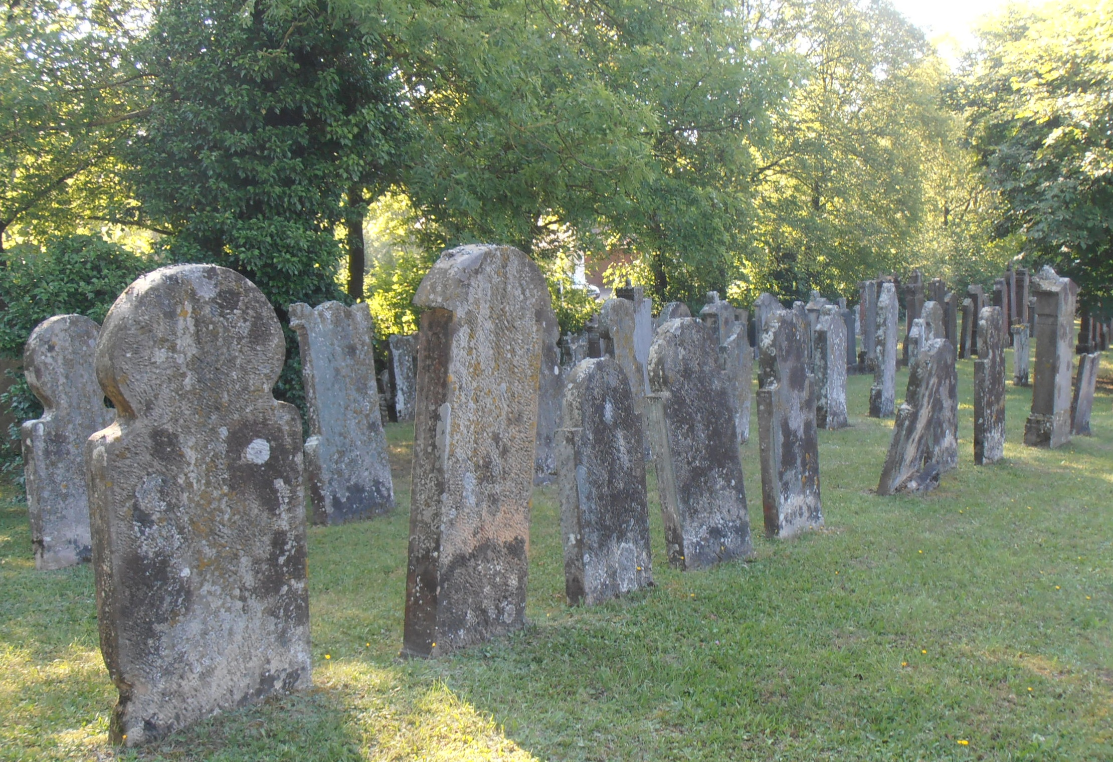 בית עלמין Jewish cemetery in CRH